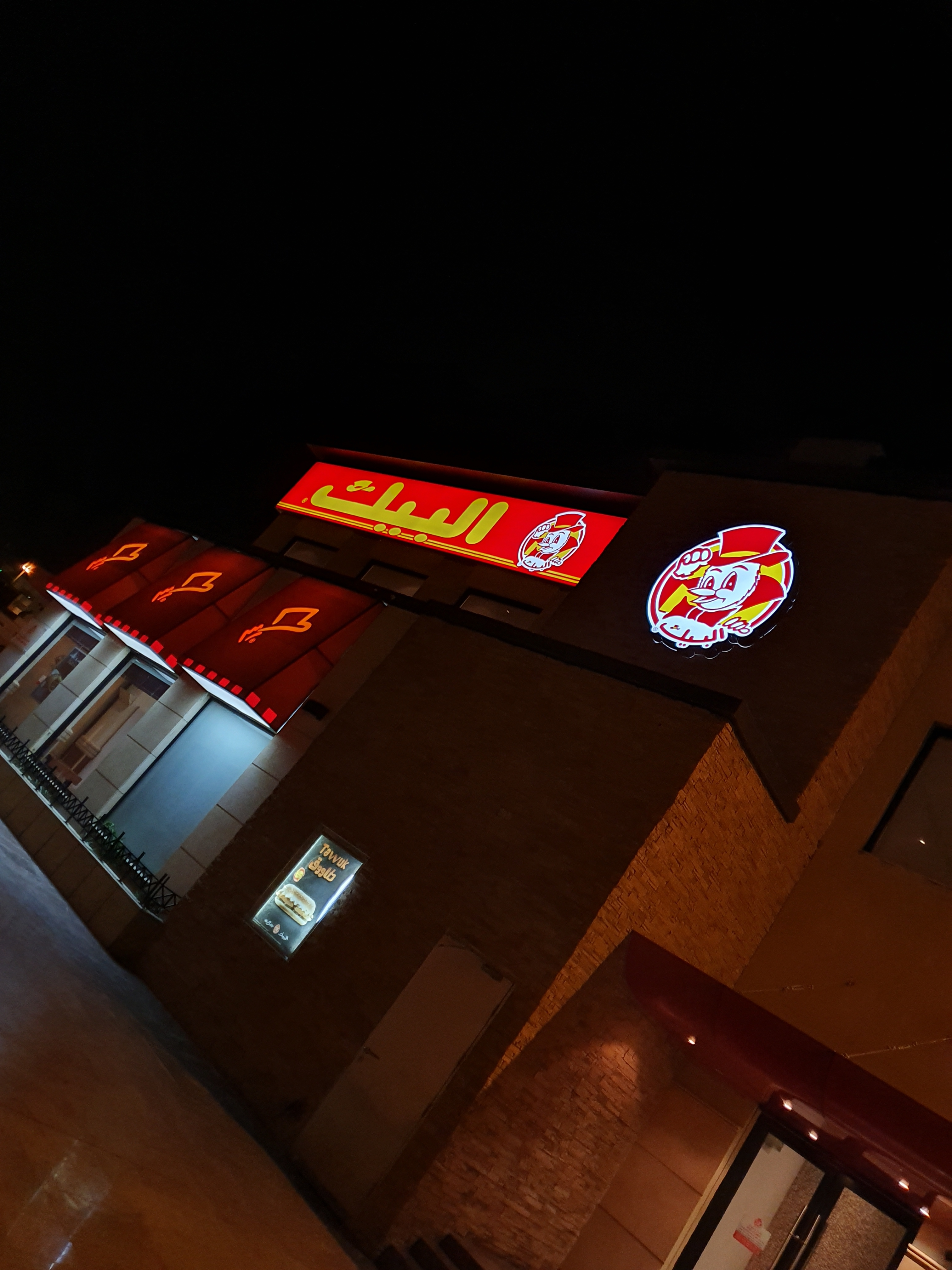 The Nakheel Plaza Branch of AlBaik located in Buraidah Al Qassim Saudi Arabia